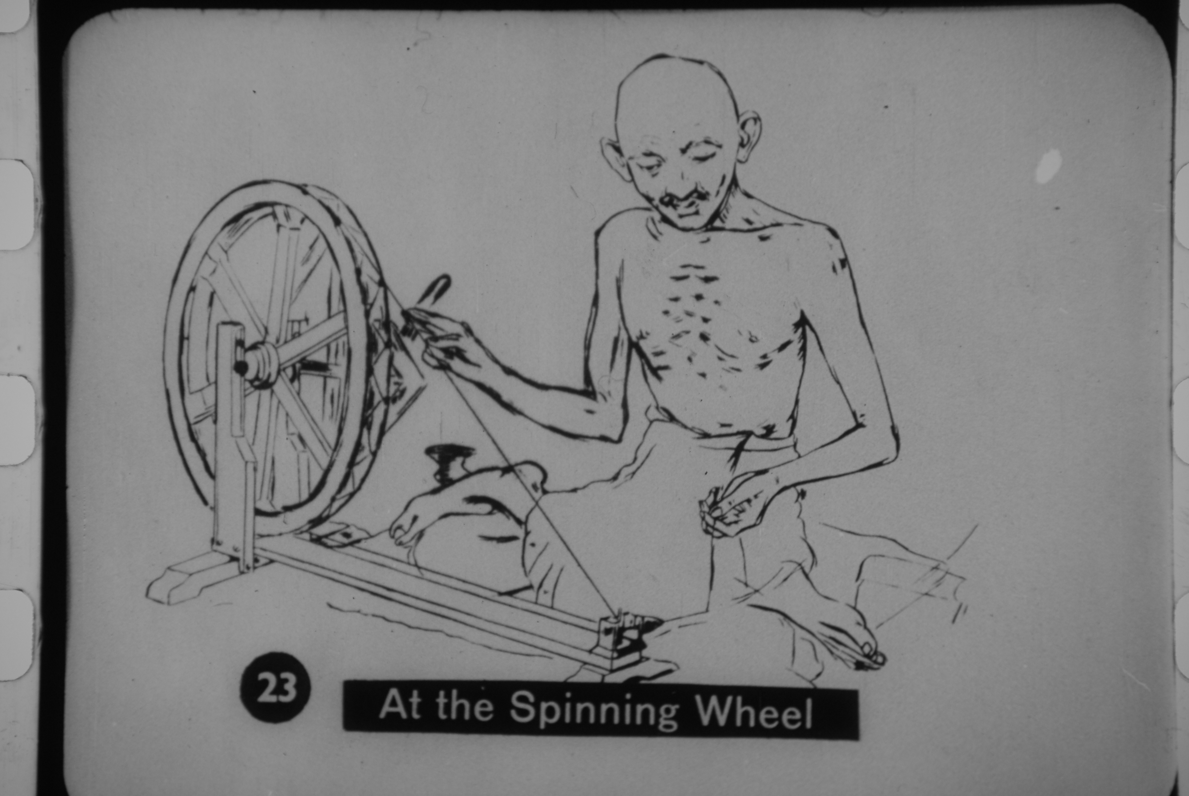 Gandhi at the spinning wheel